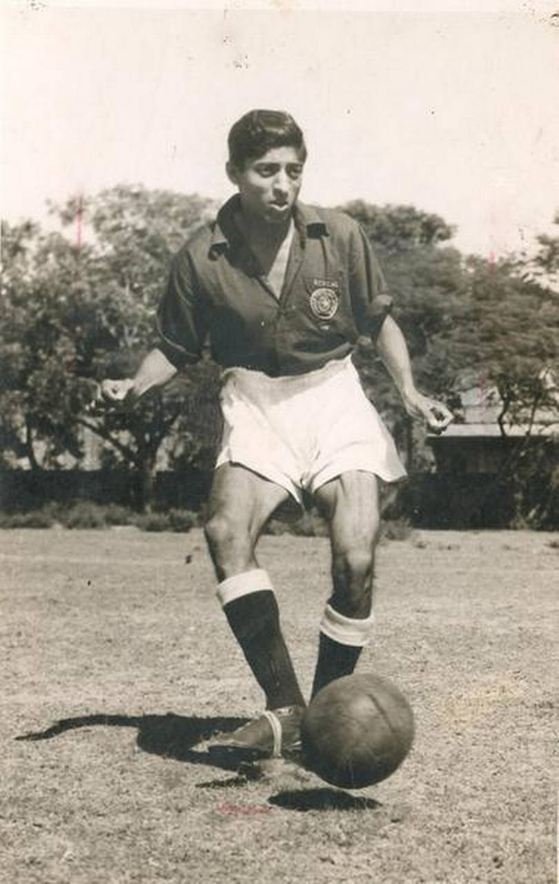 Former India national football team captain Subimal "Chuni" Goswami.